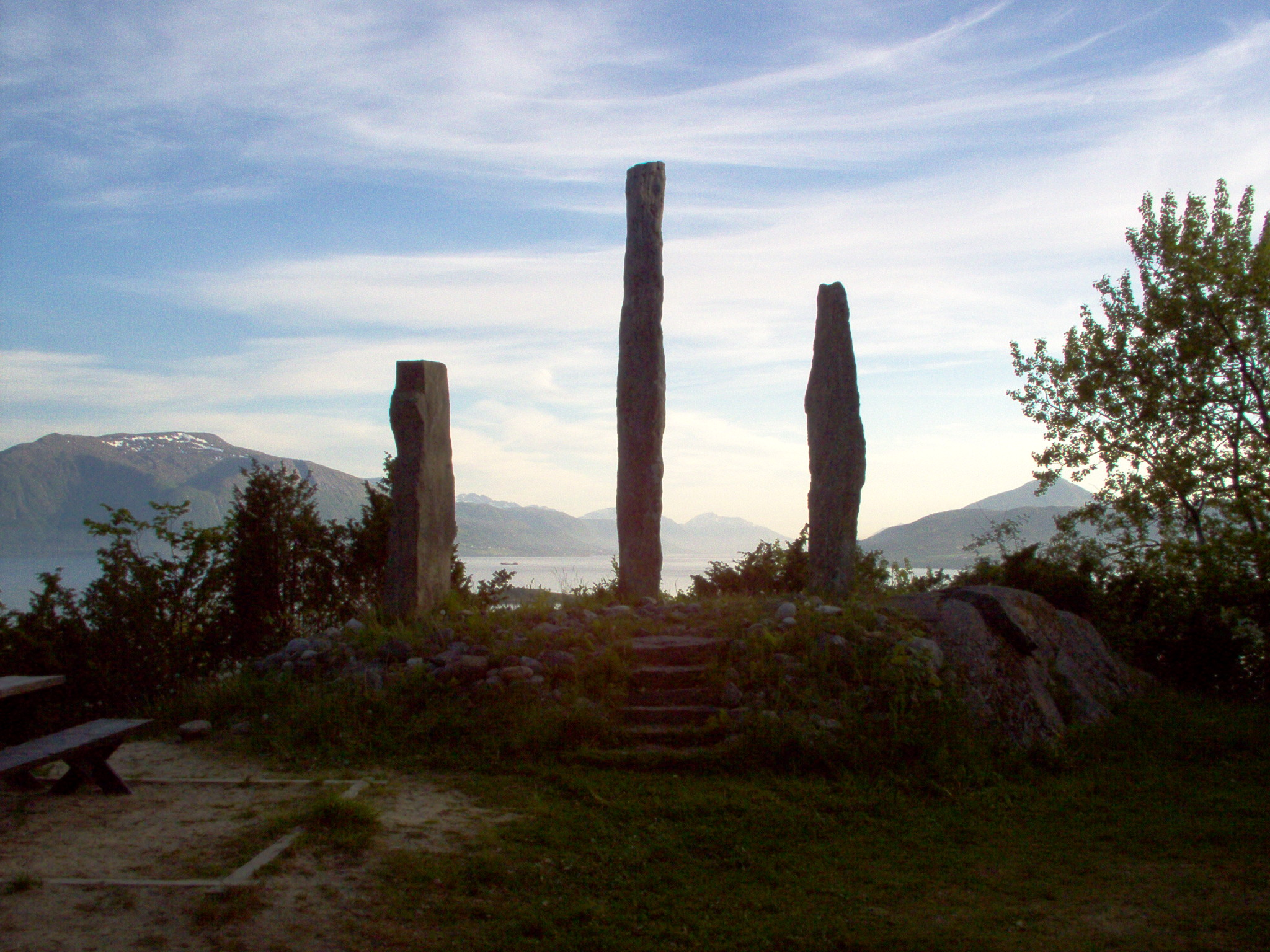 Obelisk memorial for Egil Ullserk and the people who died at the Battle of Rastarkalv. Located at Freidarberg, Frei, Norway